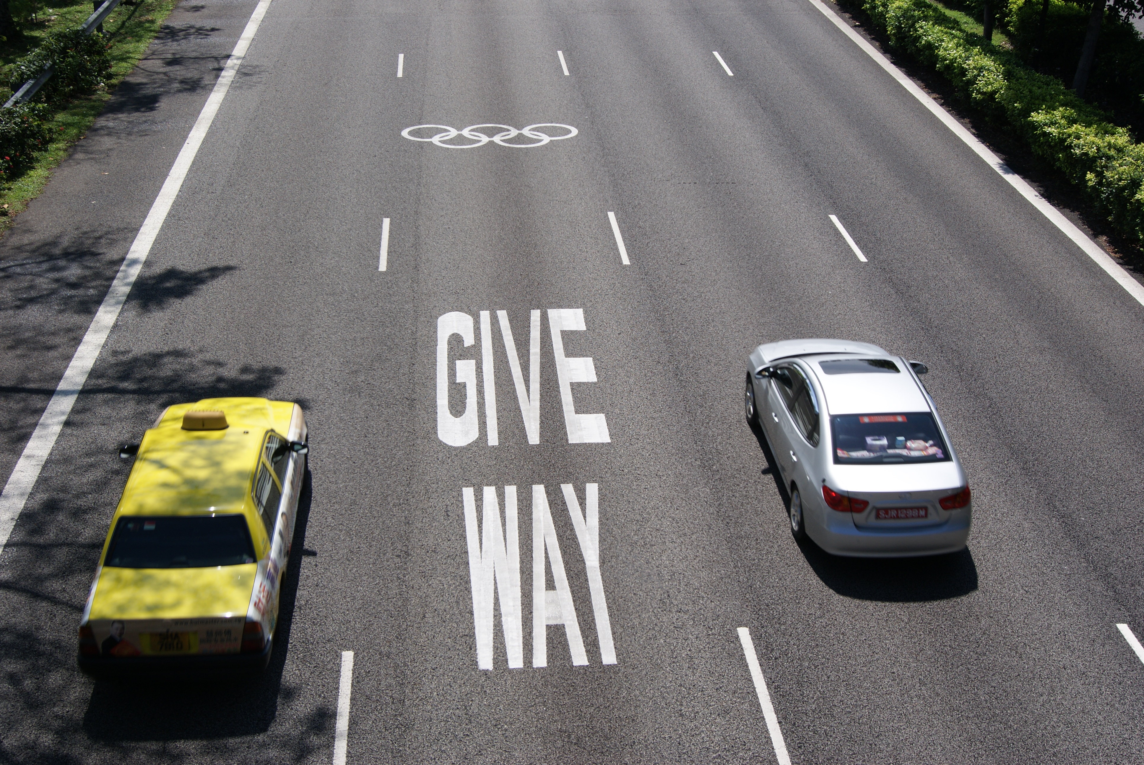 A 2010 Summer Youth Olympics lane marking on the Ayer Rajah Expressway in the direction of Tuas, photographed from an overhead bridge near the National University of Singapore.